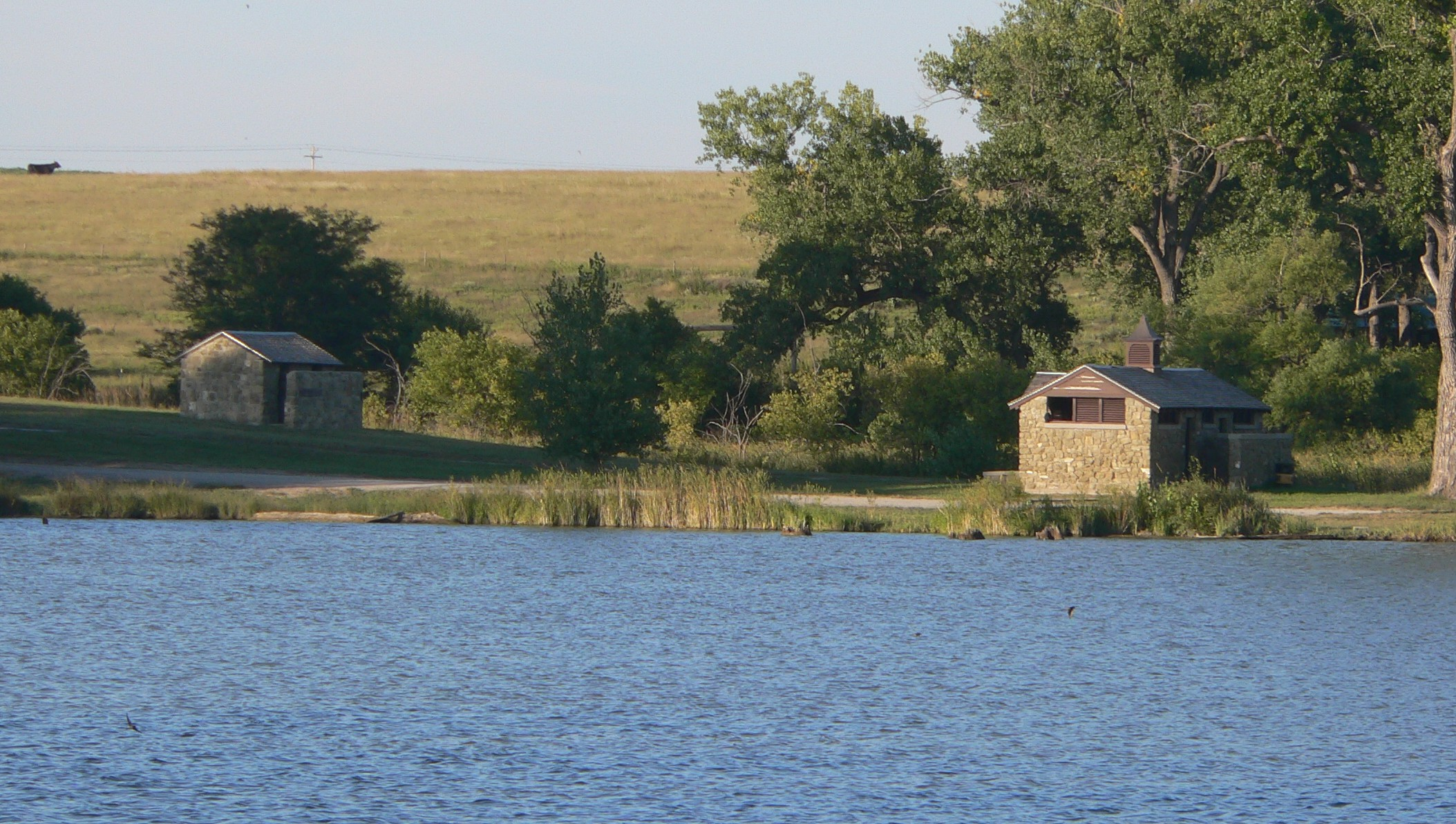 Antelope Lake Park in Graham County, Kansas: camera is facing generally eastward across lake, toward picnic shelter near north end of lake.